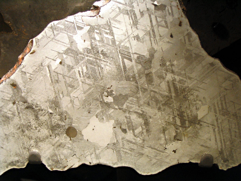 Laguna Manantiales meteorite. A cross-section showing Widmanstätten patterns. Photograph taken at the Natural History Museum, London.